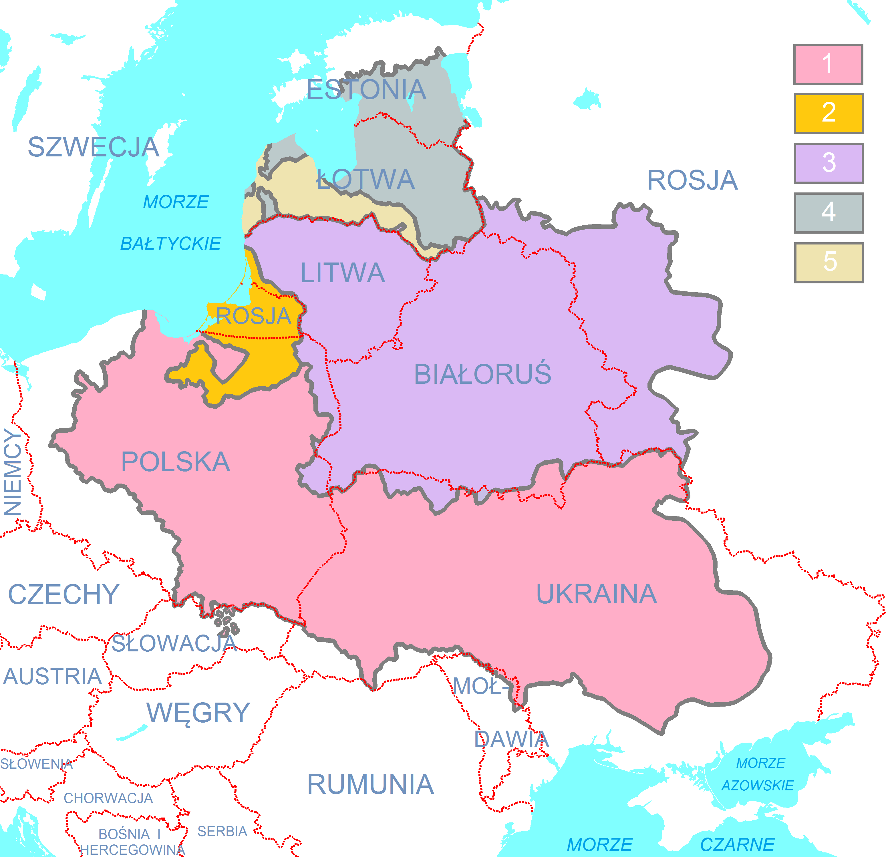 Polish-Lithuanian Commonwealth (1619) compared with today's borders (Polish names)Legend1 - The Crown (Kingdom of Poland),2 - Duchy of Prussia - Polish fief,3 - Grand Duchy of Lithuania,4 - Livonia,5 - Duchy of Courland - Livonian fief.